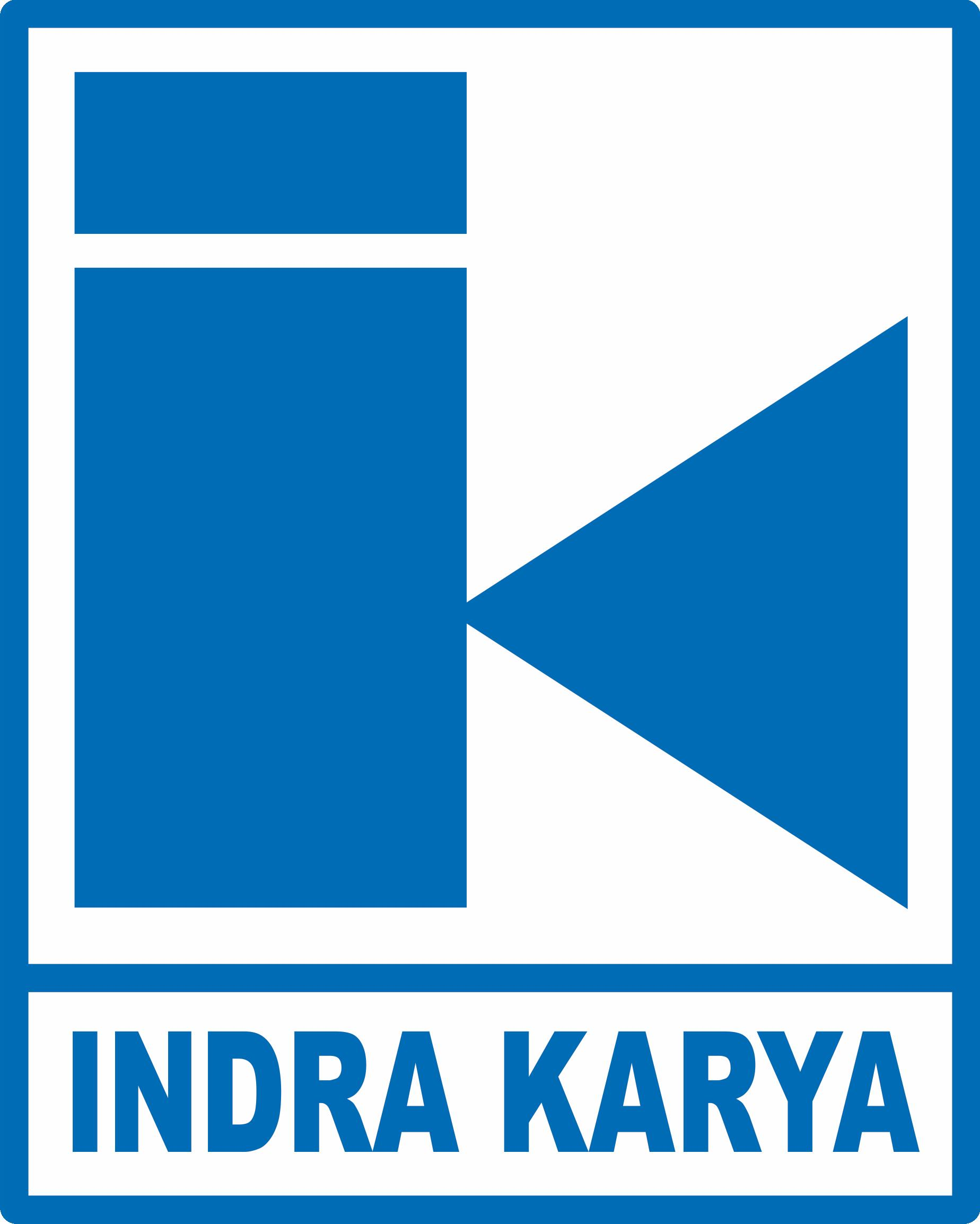 We, PT Indra Karya as a consultant in Indonesia state-owned company was founded on March 29, 1961 in the first concentrate itself as a specialist in Electric Power Development Project and Water Resources. But this time, success in achieving the goals set at the initial stage is to encourage companies to continue to expand its expertise in other fields such as Building, Roads and Bridges, Environment and others.